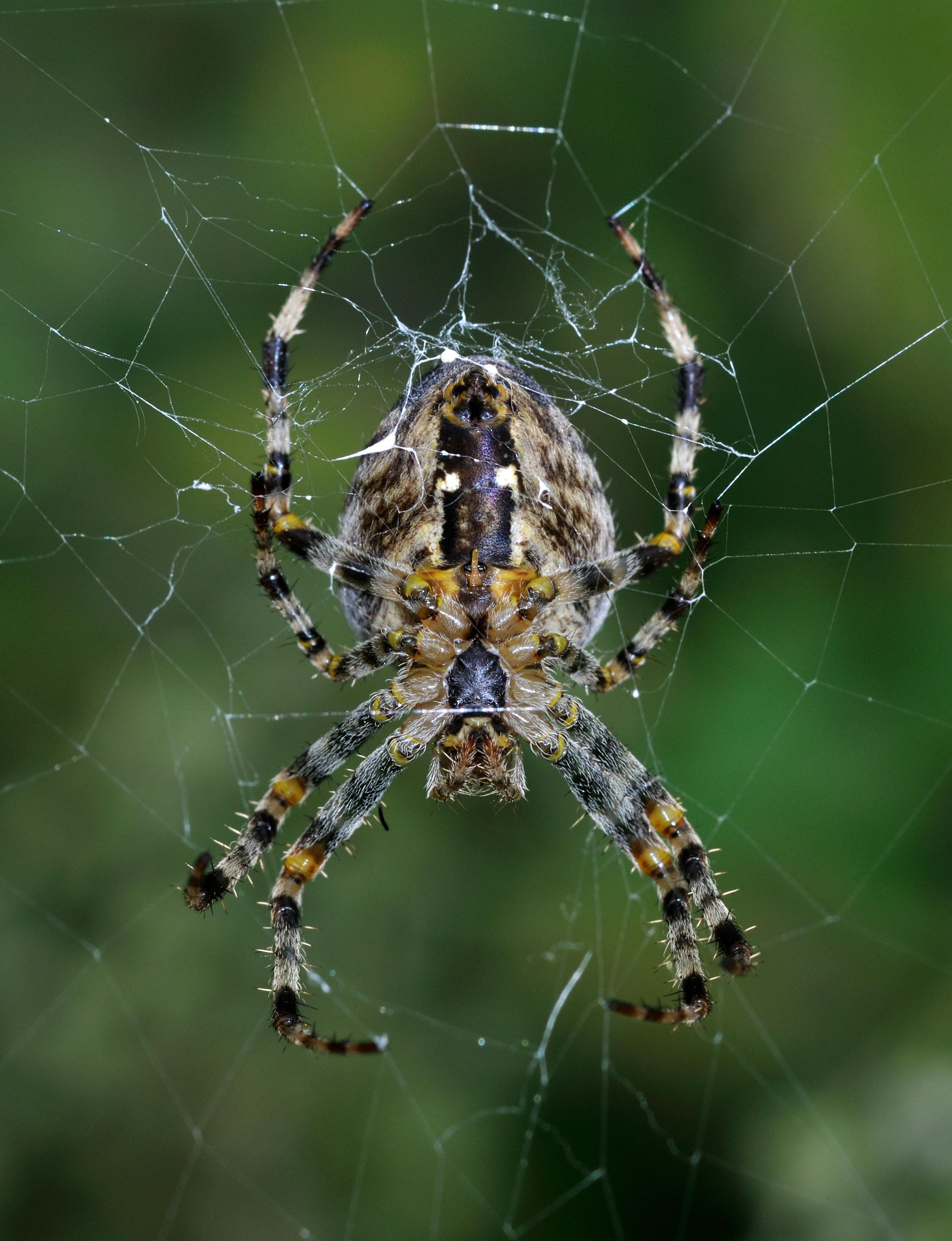 Underside of a Diadem Spider (Araneus diadematus) in its web at a retention basin in Ahlen, Germany.